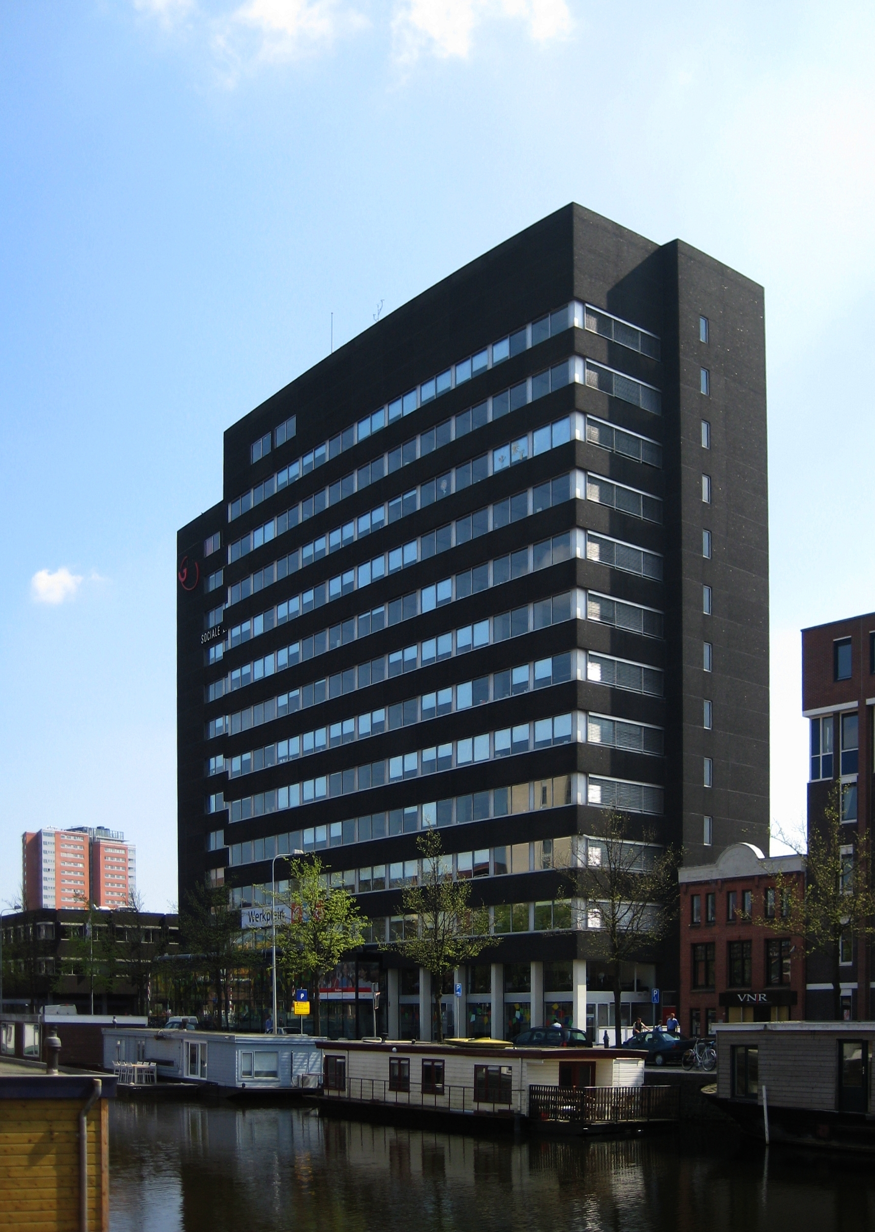 The Zwarte Doos (Black Box) (Van Linge & Kleinjan, 1976), an office building in the Dutch city of Groningen.